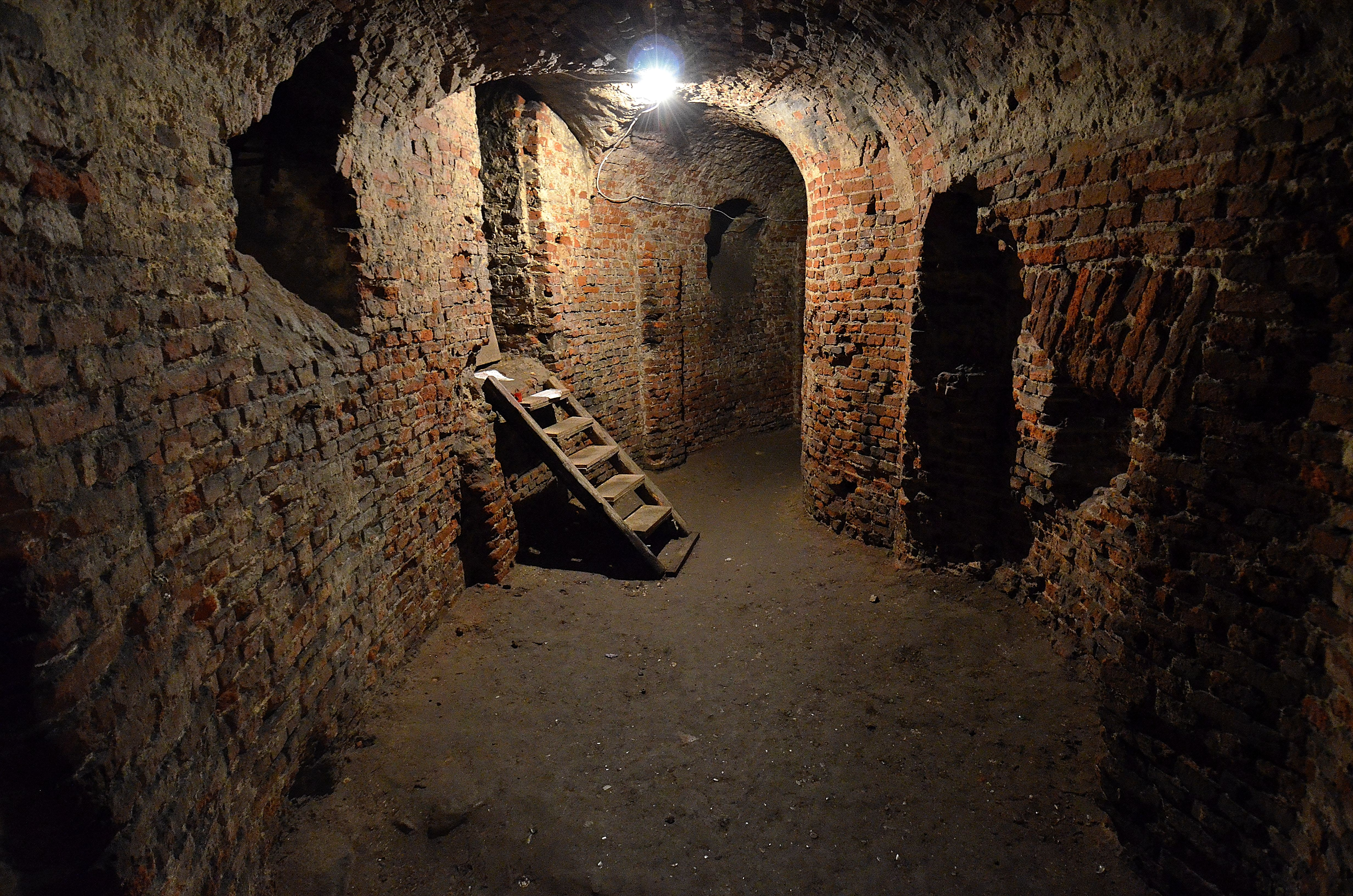 A side chamber of the Elizeum in Warsaw (listed in the Register of Historic Monuments on 1.07.1965, reference no. 278)